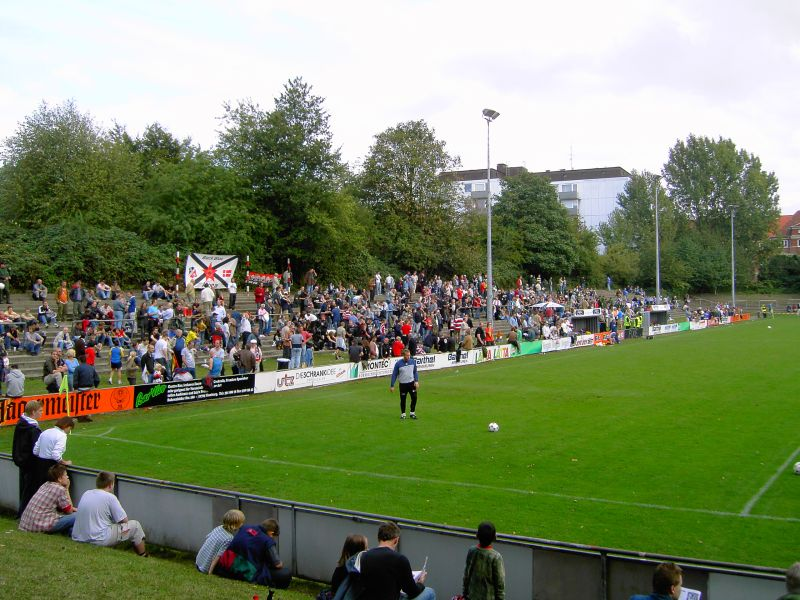 Stadium "Adolf-Jäger-Kampfbahn" - homeground of the football club Altonaer FC von 1893 in Hamburg, Germany. View from the west curve to the back straight in the north . Photo taken by Mghamburg during the fourth ligue match Altonaer FC von 1893 vs. VfR Neumünster, 1st October 2006 (Attendance: 1150).